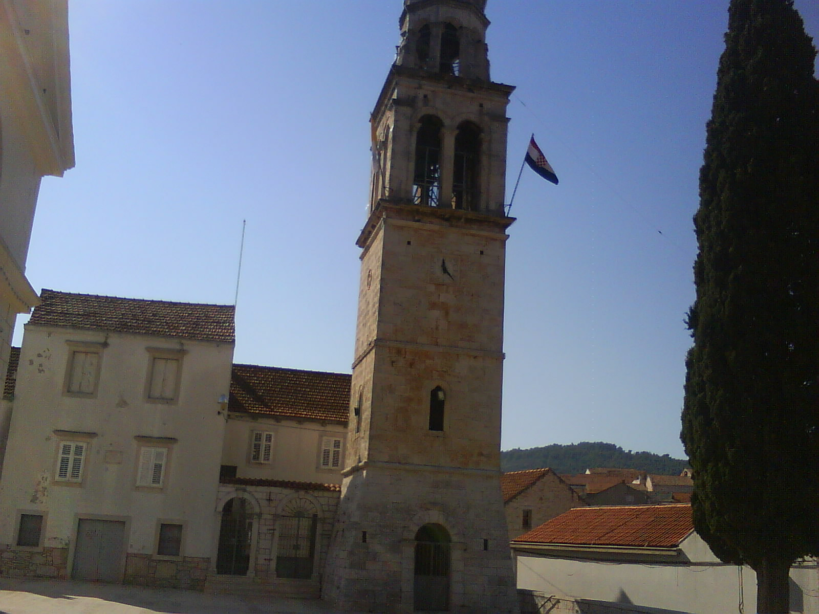 Vela luka., small town on west Korčula